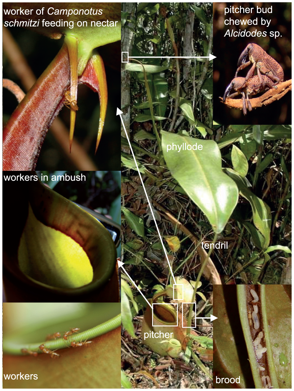 Original caption: "The upper left inset shows a worker of Camponotus schmitzi feeding on nectar from one of the two "fangs" characterizing N. bicalcarata. The middle left inset shows workers of C. schmitzi in ambush beneath the peristome. The lower insets show workers (left) and brood (right) of C. schmitzi, respectively, on the peristome and in the hollow and swollen apical part of the tendril, i.e. the domatium. The upper right inset shows the Nepenthes-specific weevil, Alcidodes sp. copulating and feeding on a pitcher bud."